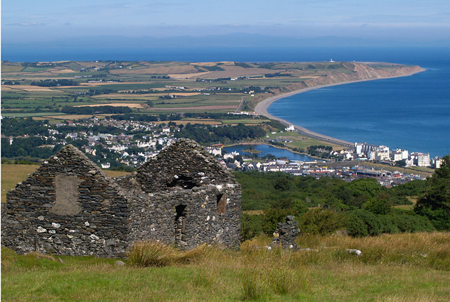 Park Mooar. Isle of Man. The ruins of a farm, Park Mooar, on the north facing slopes of North Barrule, overlooking the town of Ramsey. From here a large part of the northern plain can be seen as well as the Scottish hills.